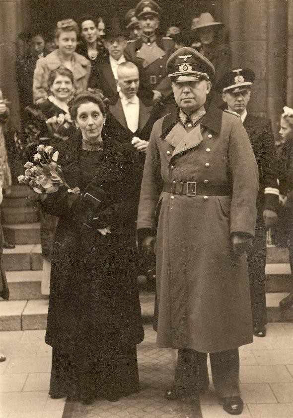 Photographic picture of Generalleutnant Kurt Schmidt on the wedding of his oldest son.